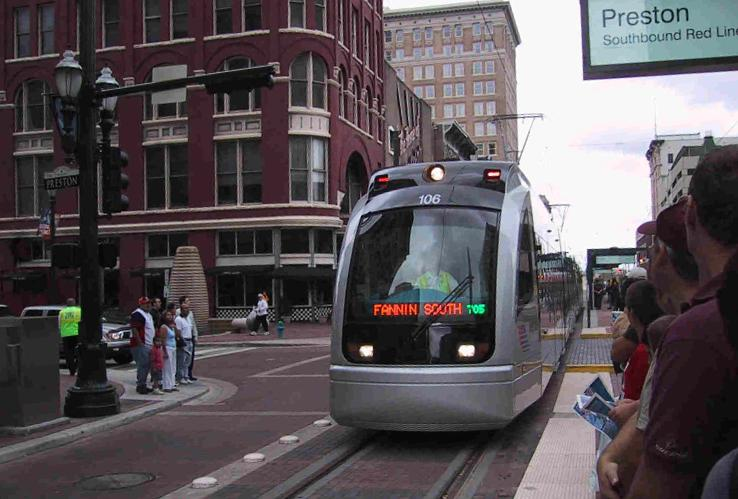 A METRORail train approaching Preston Station in downtown Houston, Texas, USA.